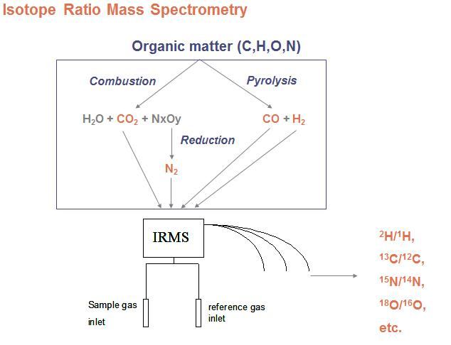 Figure 6 - Principle of the IRMS